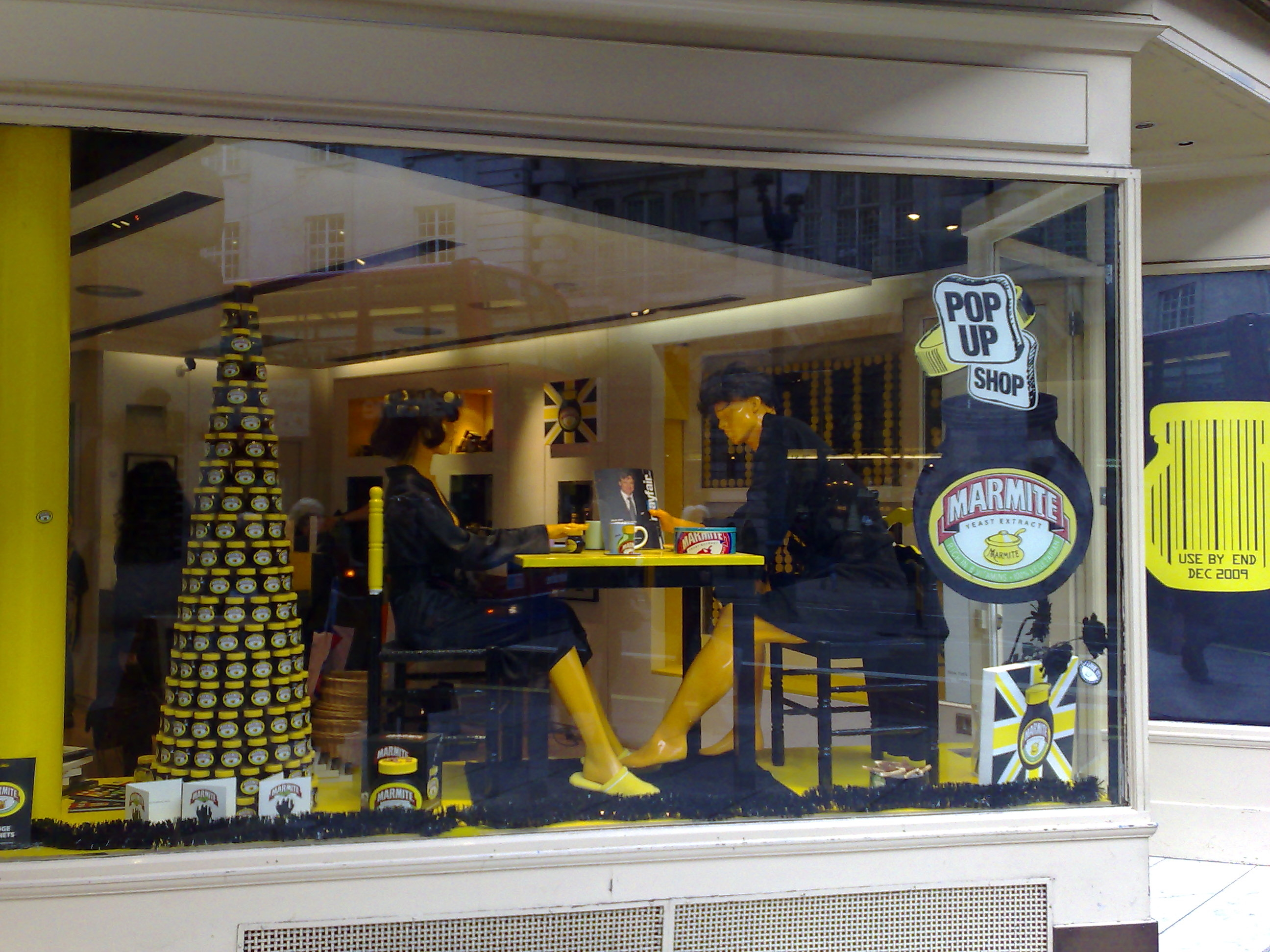 The shop window